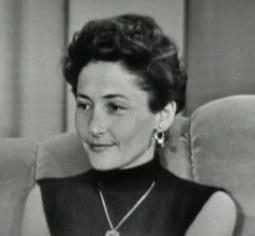 Portrait of Holocaust survivor Hanna Bloch Kohner participating “This Is Your Life” (1953)